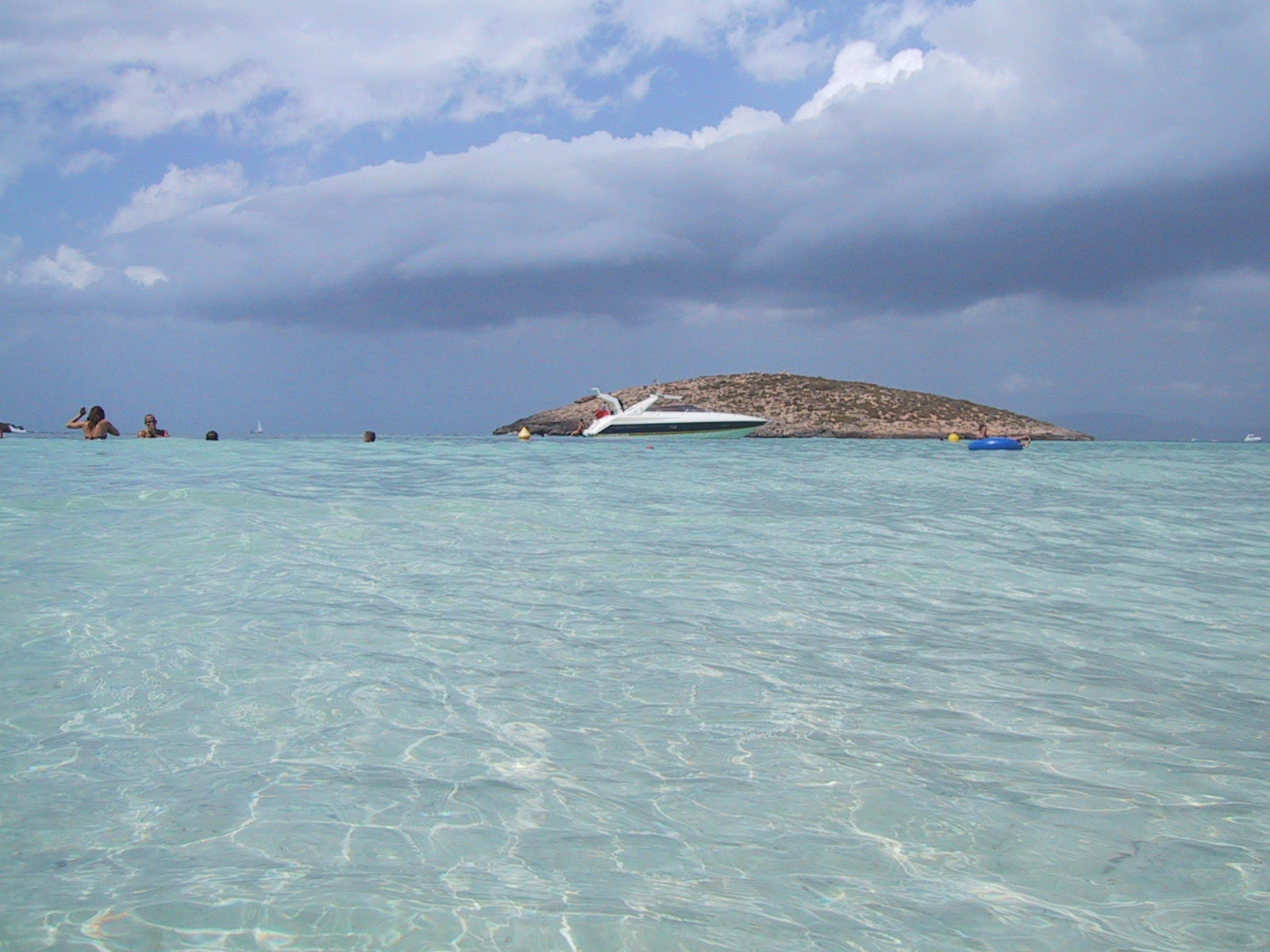 foto taken in formentera, playa illetas with my old ixus nearly touching the water.